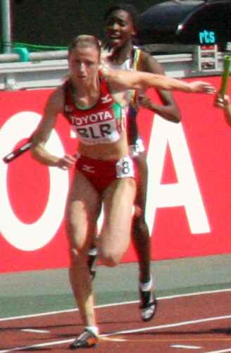 World Athletics Championships 2007 in Osaka - Scene from first heat of the women*s 4*100 relay (1st round): Aksana Drahun, Elodie Ouédraogo